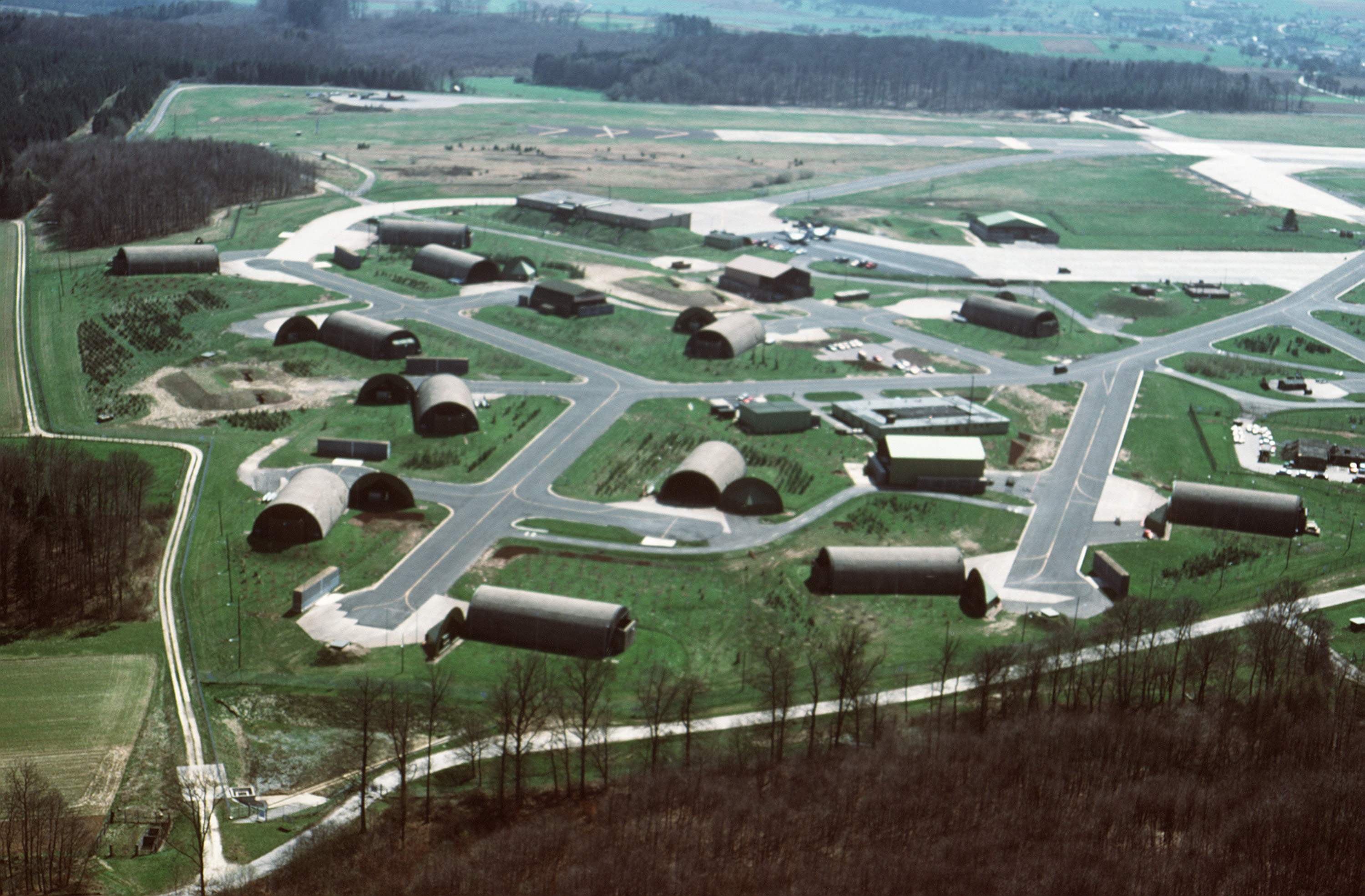 An aerial view of the hardened aircraft shelters at Bitburg Air Base (looking south-west), Rheinland-Pfalz, (West) Germany in 1988.